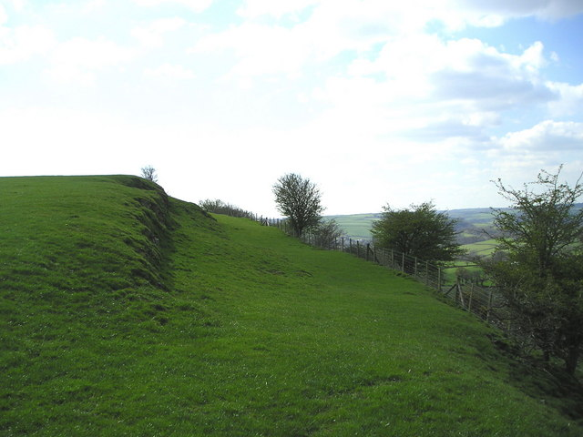 Fort on Merlin's Hill This is part of the banks and ditches that protected this large Iron Age hill fort, built in about 400BC, on a steep-sided hill above the Tywi Valley. It is a Scheduled Ancient Monument, preserved by CADW.